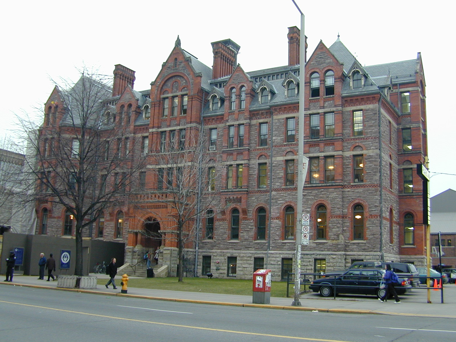 Royal Conservatory of Music in Toronto. Photo by paradiso.